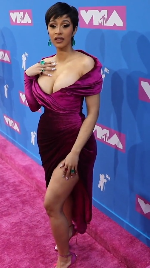 Cardi B at 2018 VMA Red Carpet